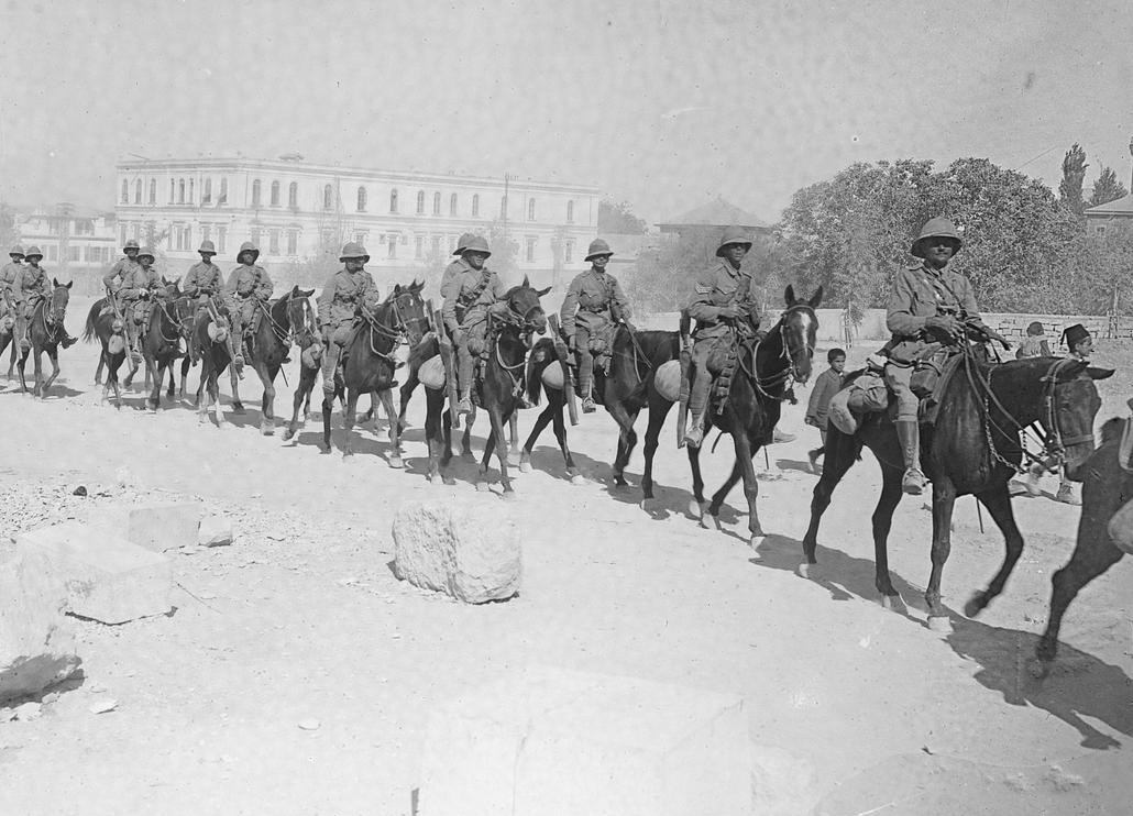 IWM caption : Gloucester Yeomanry in General Chauvel's march through Damascus.